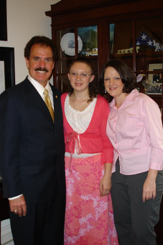 Phil Gingrey meets with Faith and Masha Allen before Masha’s testimony to the United States House Energy Subcommittee on Oversight and Investigations. Masha, who was sexually abused as a child, bravely shared her story with the Committee as they examined legislation to deter those who producer, distribute, and download internet child pornography.